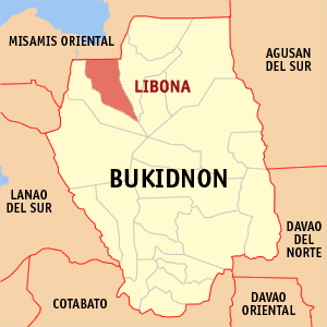 Map of the Bukidnon showing the location of Libona